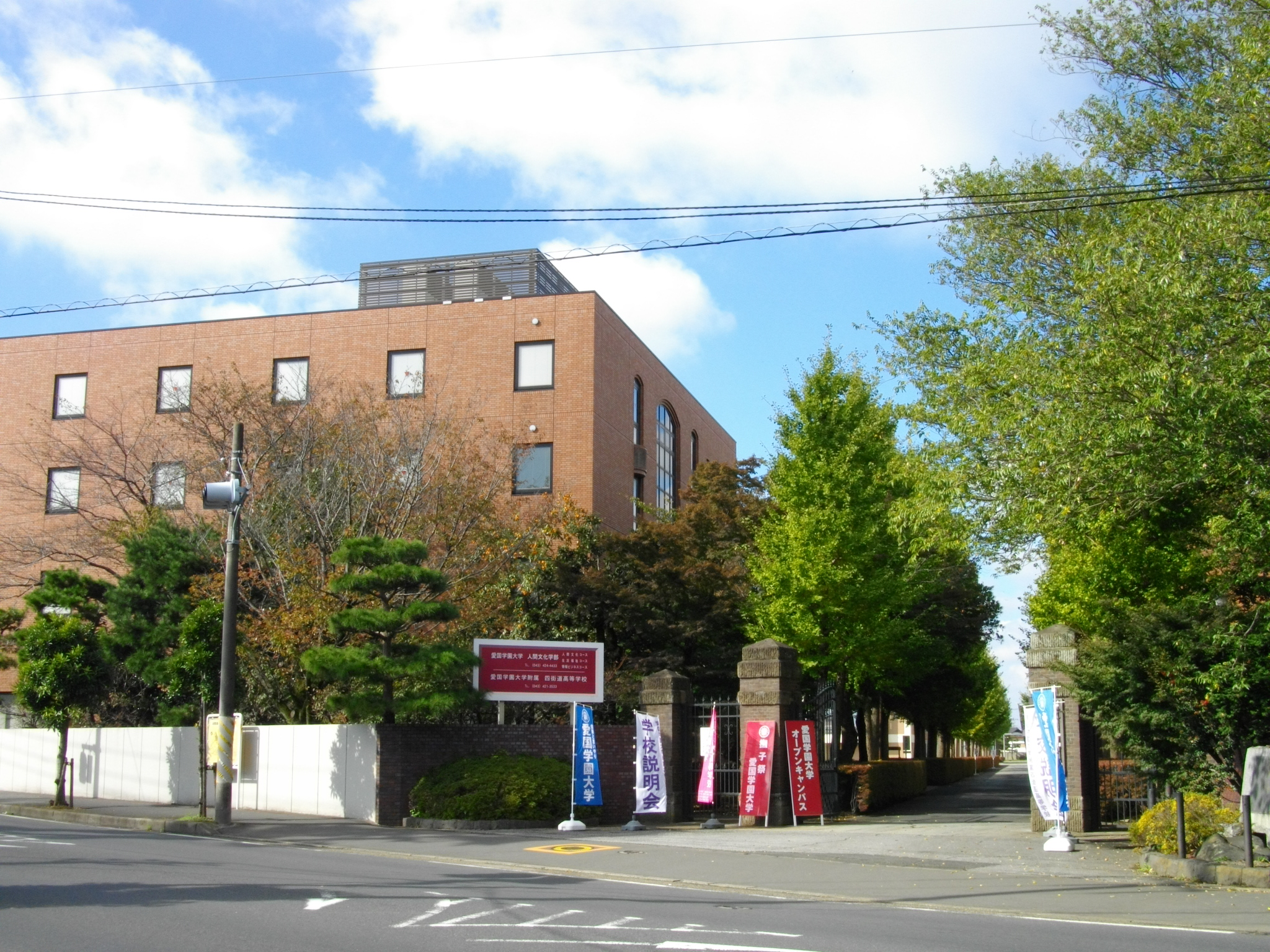 Aikoku Gakuen University